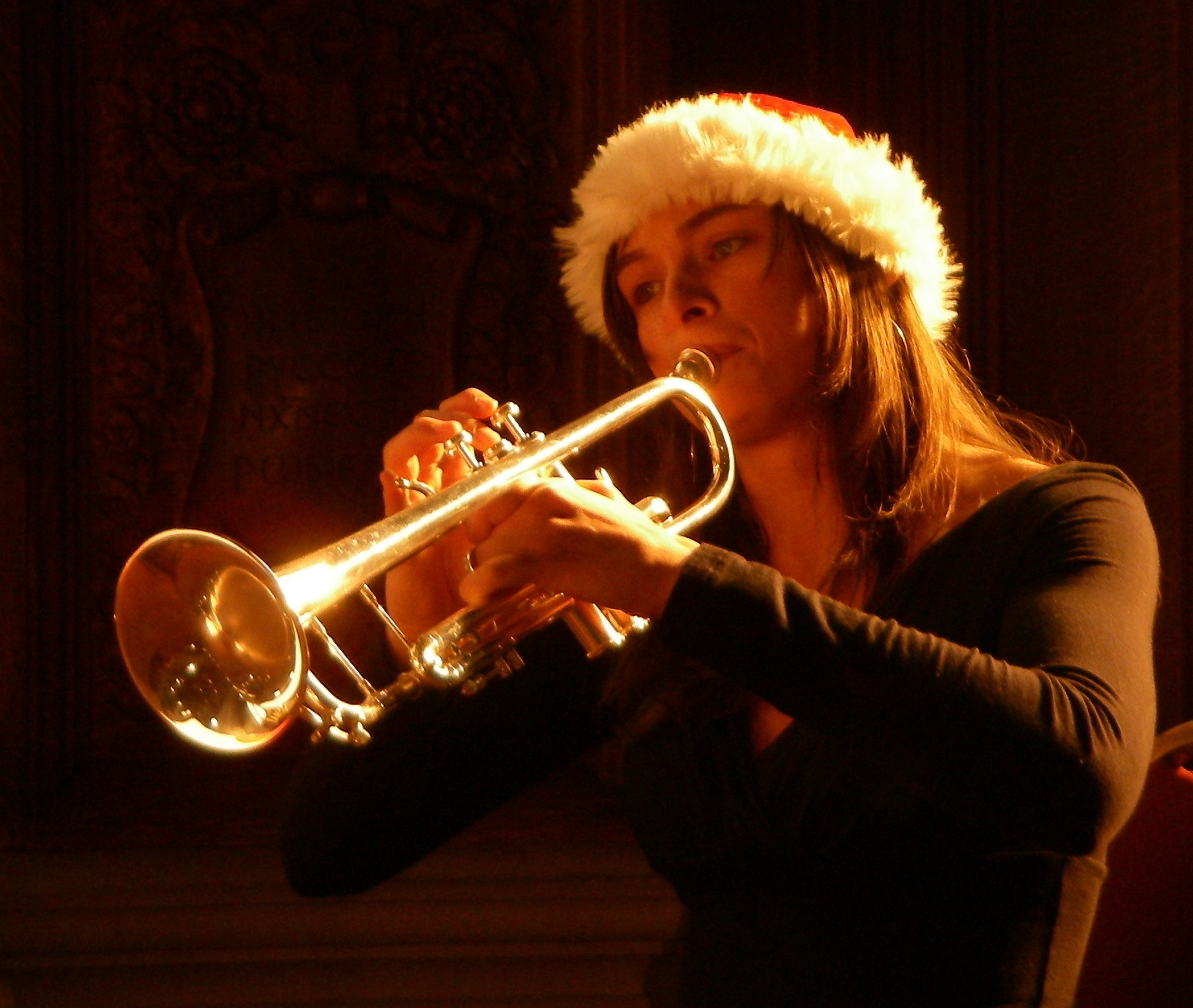 Trumpet with sunlight streaming into Knox Chapel, taken during Christmas concert performance by the Skule Brass Quintet, led by Malcolm McGrath